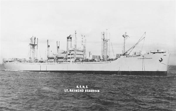 USNS Lt. Raymond O. Beaudoin (T-AP-189) underway, date and place unknown.